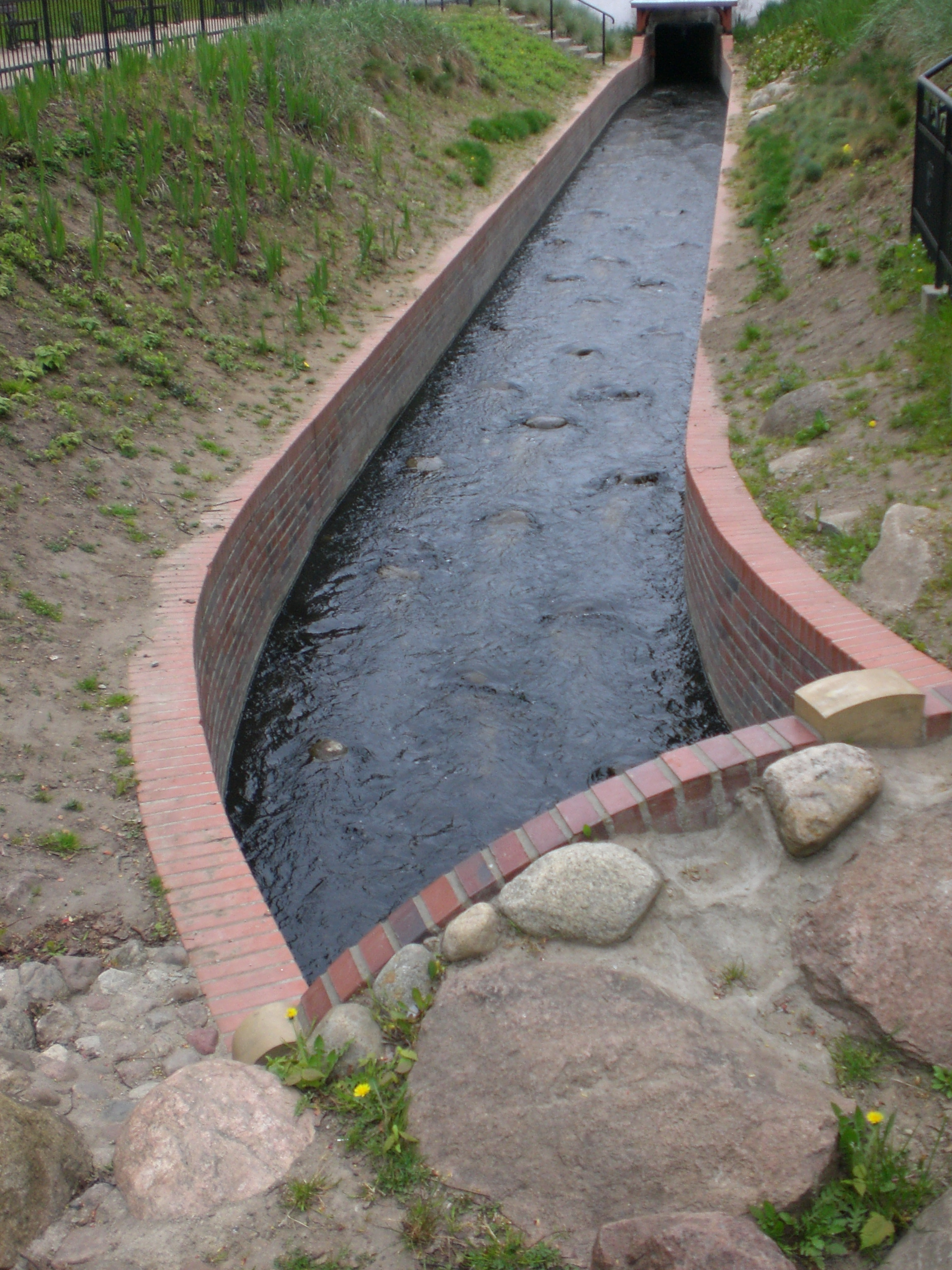 Strzyża Creek in Gdańsk